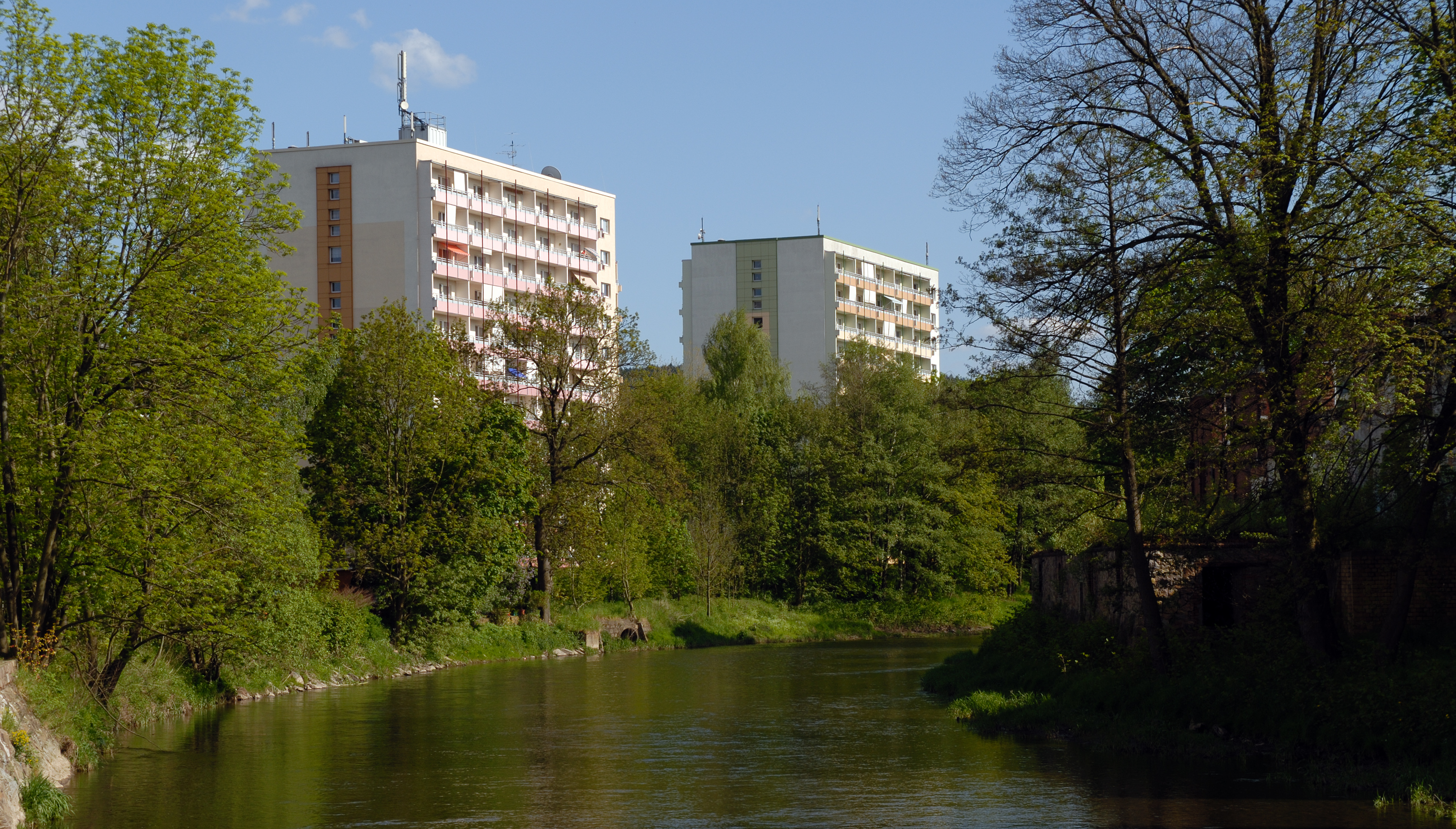 This image shows the highest houses in Flöha, Germany.